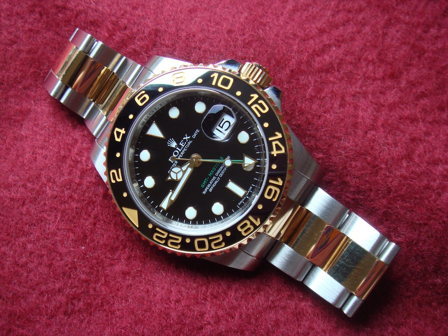 Rolex Oyster Perpetual GMT-Master II, ref. 116713LN